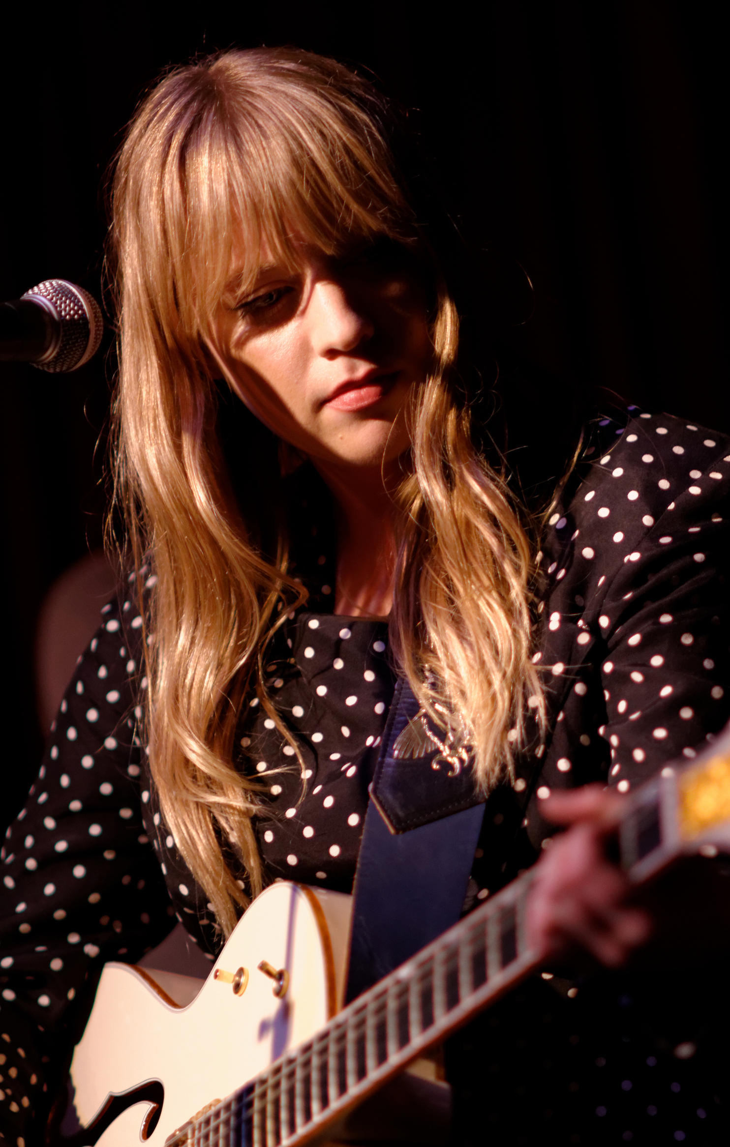 Alexz Johnson performing live at the Hotel Cafe in Los Angeles California on Thursday February 26, 2015, cropped.